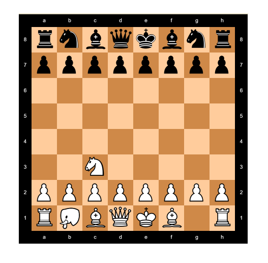 Gating of the White Elephant on b1 square after Knight b1 moves to c3 for the first time